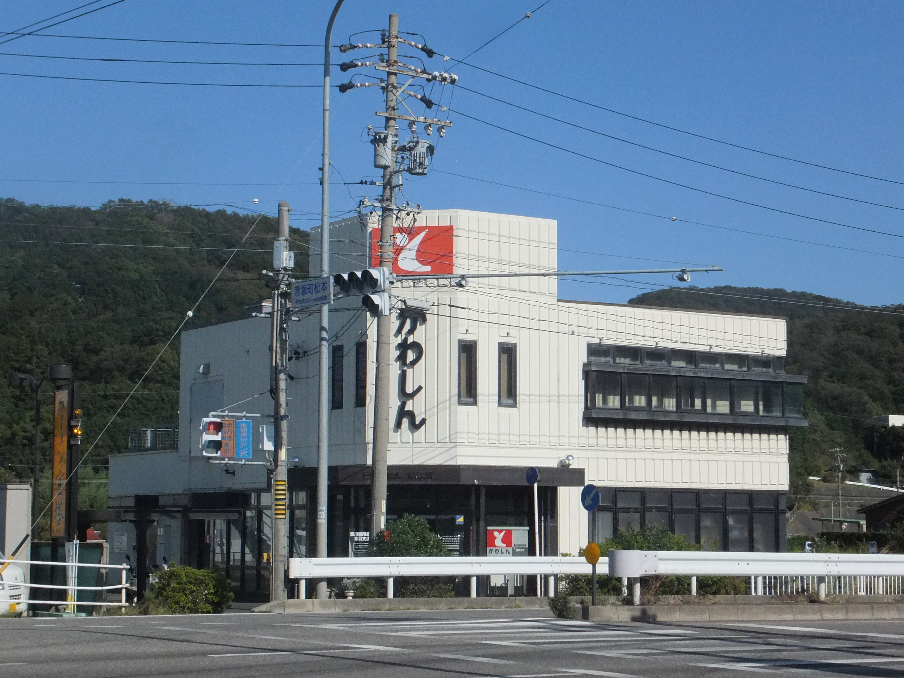 Toyokawa Shinkin Bank Otowa Branch (豊川信用金庫音羽支店), located at 156-1 Dainichi, Akasaka-cho, Toyokawa, Aichi, Japan